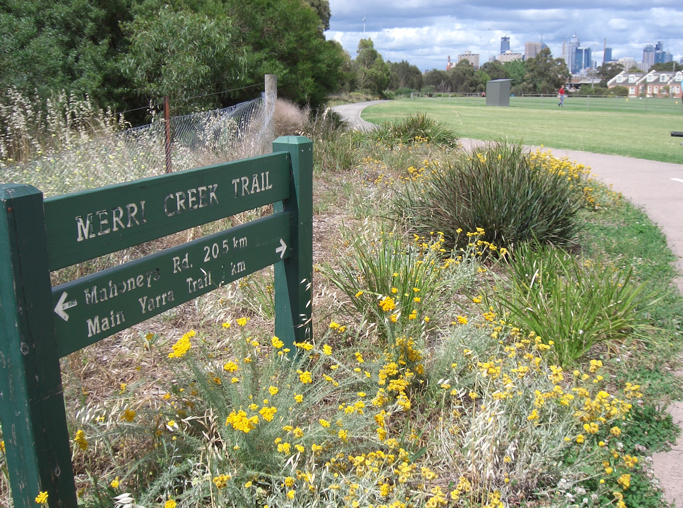 Merri Creek Trail sign and path.